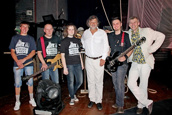 Алексей Рыбников и рок-группа SCENE GHOST